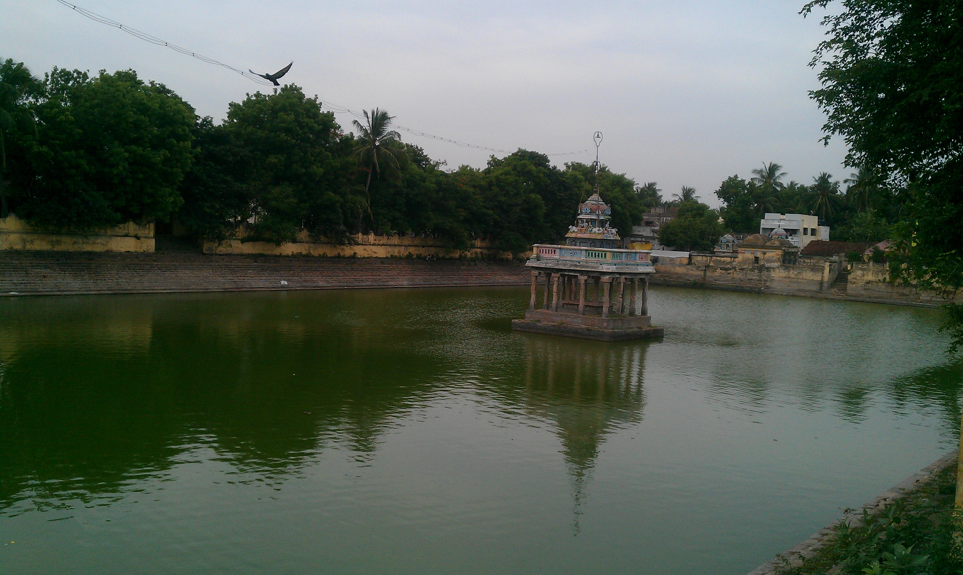 Tiruvidaimaruthur1